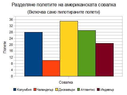 Statistic of the US space shuttle flights by orbiter in Bulgarian